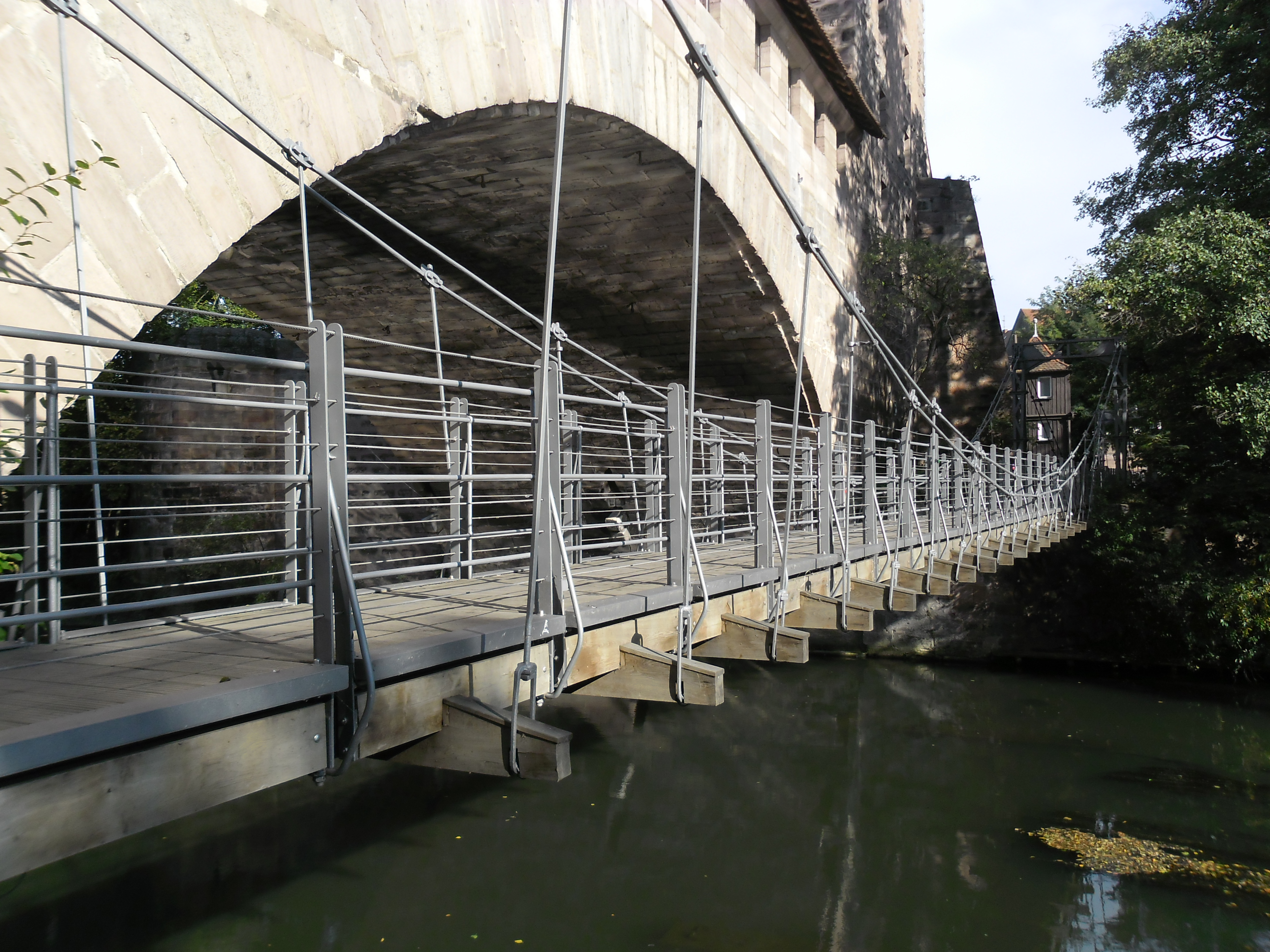 "Kettensteg" bridge across the Pegnitz